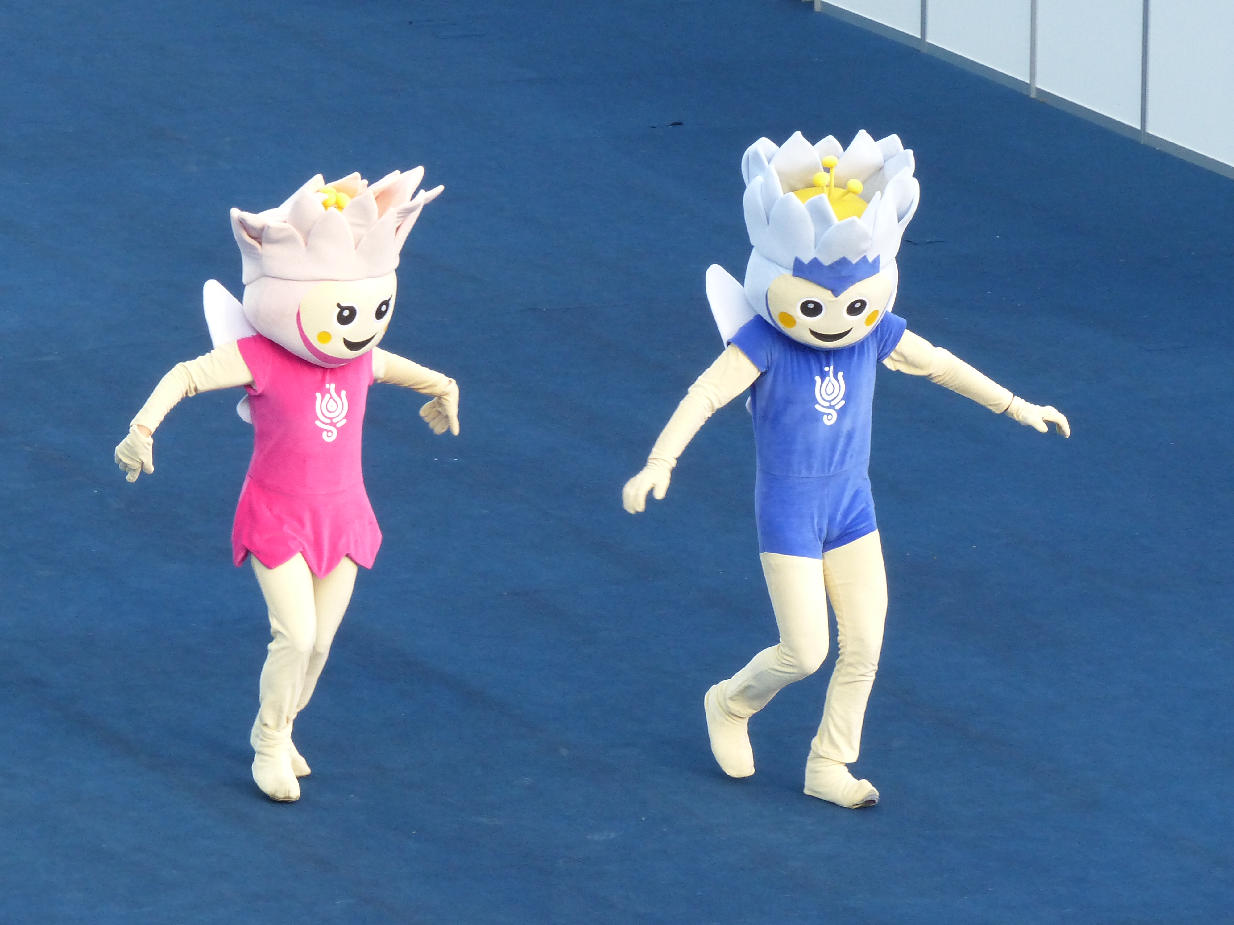 Mixed duet free final. 17th FINA World Championships Budapest / Budapest 2017 FINA Vizes Világbajnokság. Taken on Saturday, the 22nd of July, 2017. Városliget (City Park), Budapest, Hungary, Central Europe.